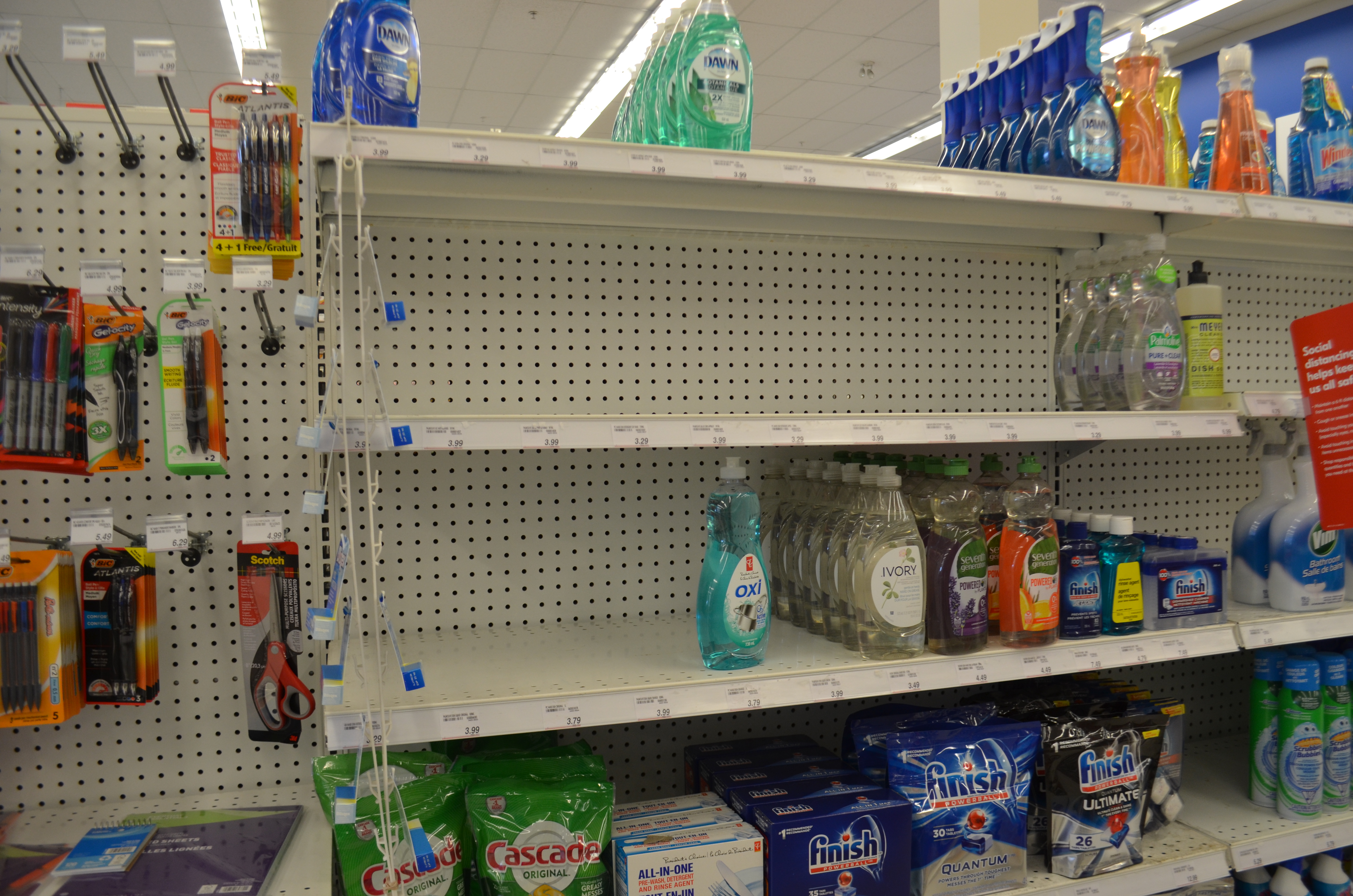 Supermarket shelves that stock sanitizer are empty due to panic-buying as the result of the COVID-19 coronavirus outbreak. This was taken at a Shoppers Drug Mart in Winnipeg, Canada.